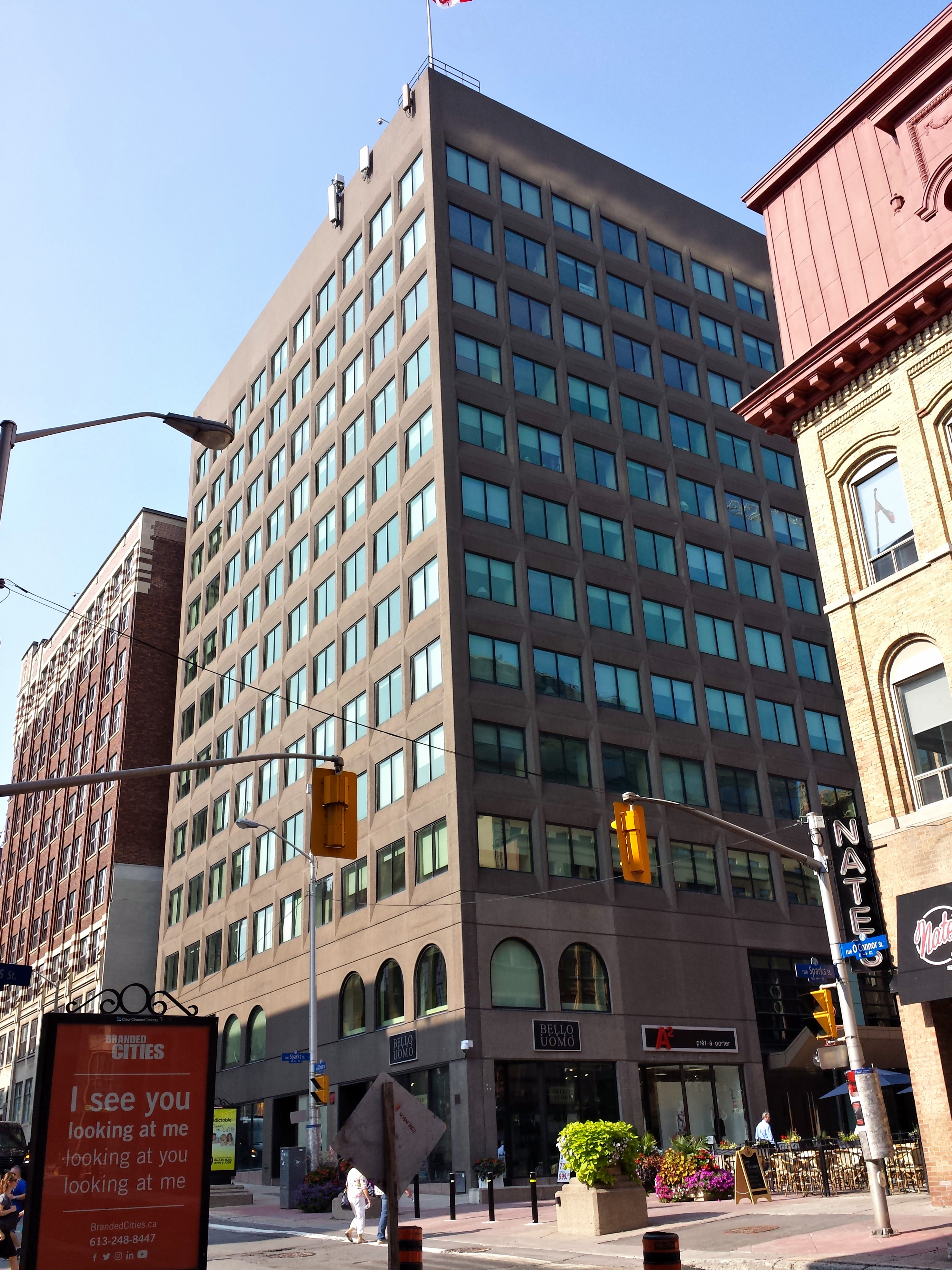 La Promenade Building, 151 Sparks Street, Ottawa, Ontario, Canada